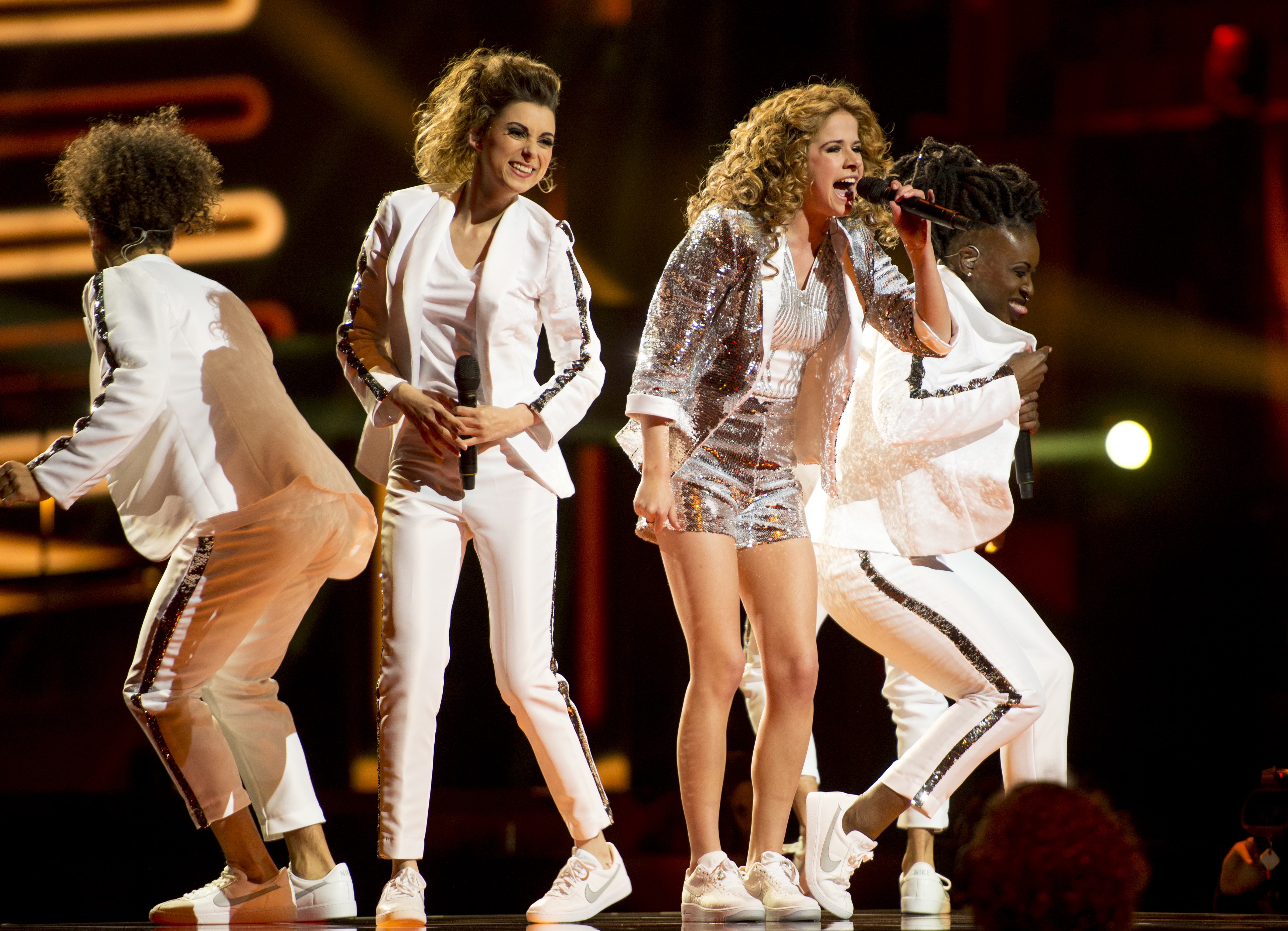 Laura Tesoro representing Belgium with the song "What's The Pressure" during a rehearsal before the second semi final of the Eurovision Song Contest 2016 in Stockholm. (Help translate this text)